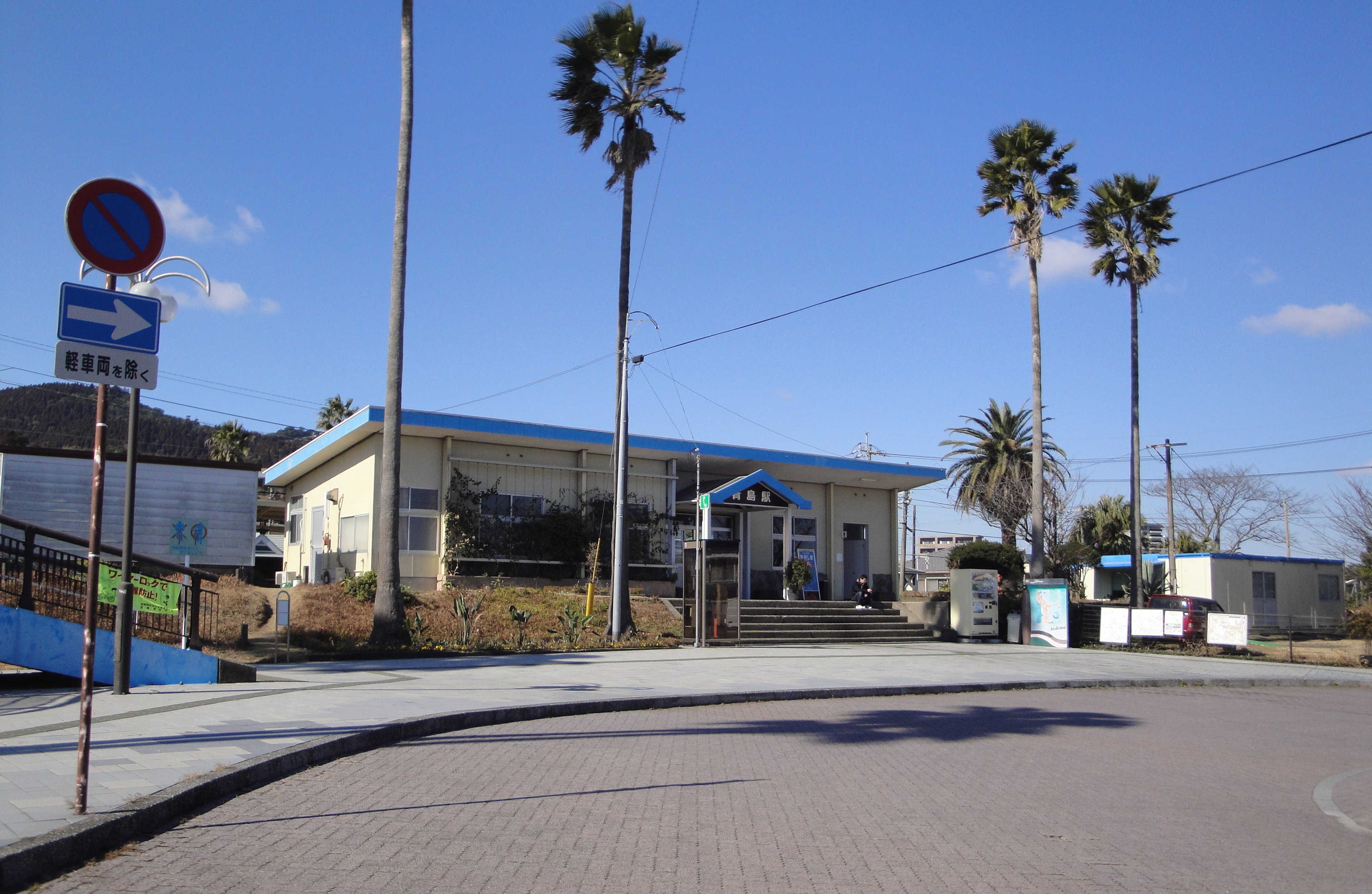 The forecourt of Aoshima Station on the Nichinan Line in Miyazaki, Japan